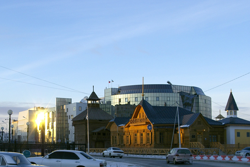 Building of the Russian-Asian bank (end 19th century). To the left the tower of the ostrog of Yakutsk, the symbol of Yakutsk. In the background the glass facade of the building Of komdragmeta